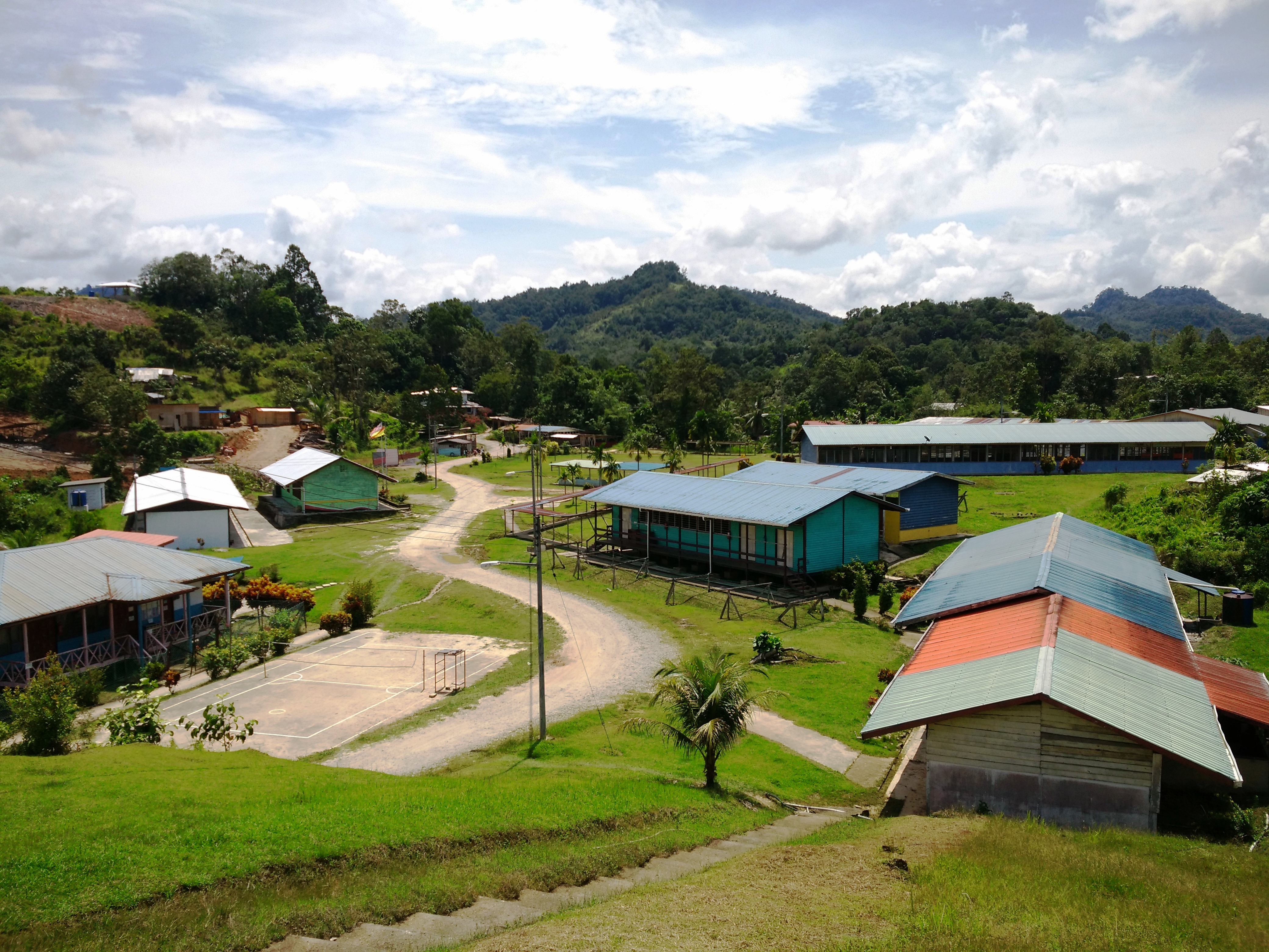 View of SK Ulu-Entabai from a small hill